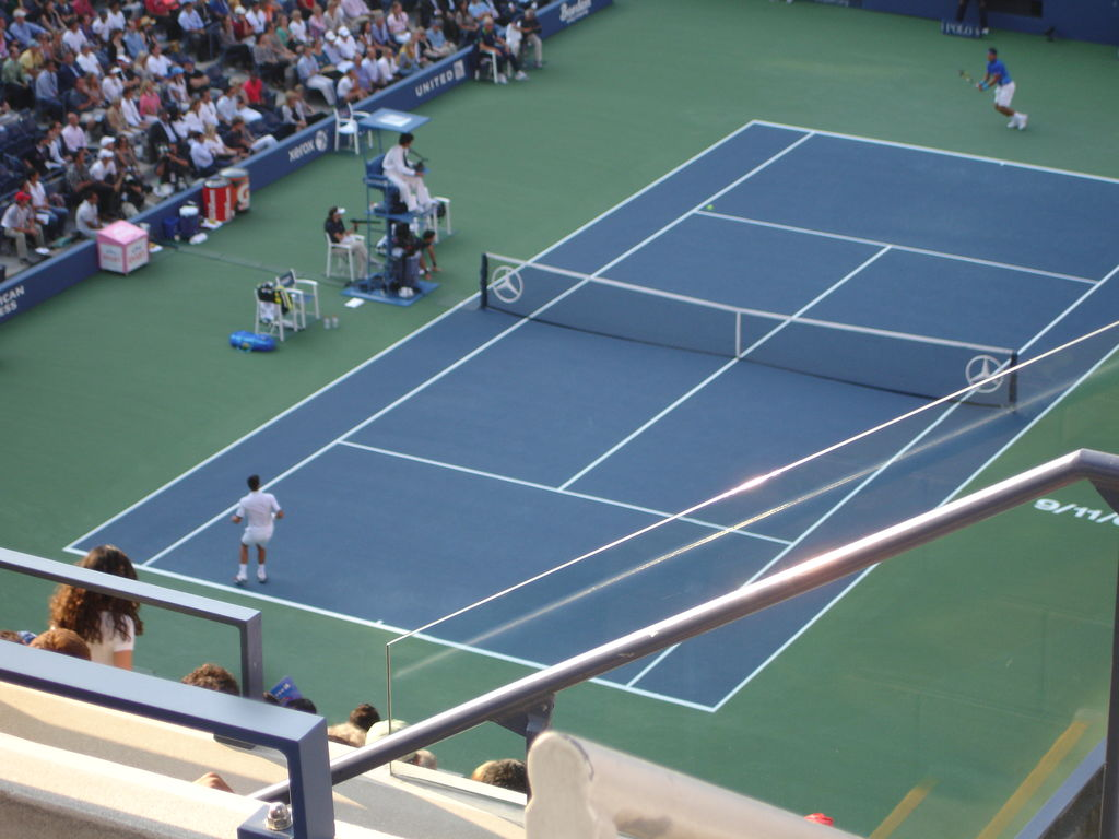 2011 US Open final Novak Đoković vs Rafael Nadal